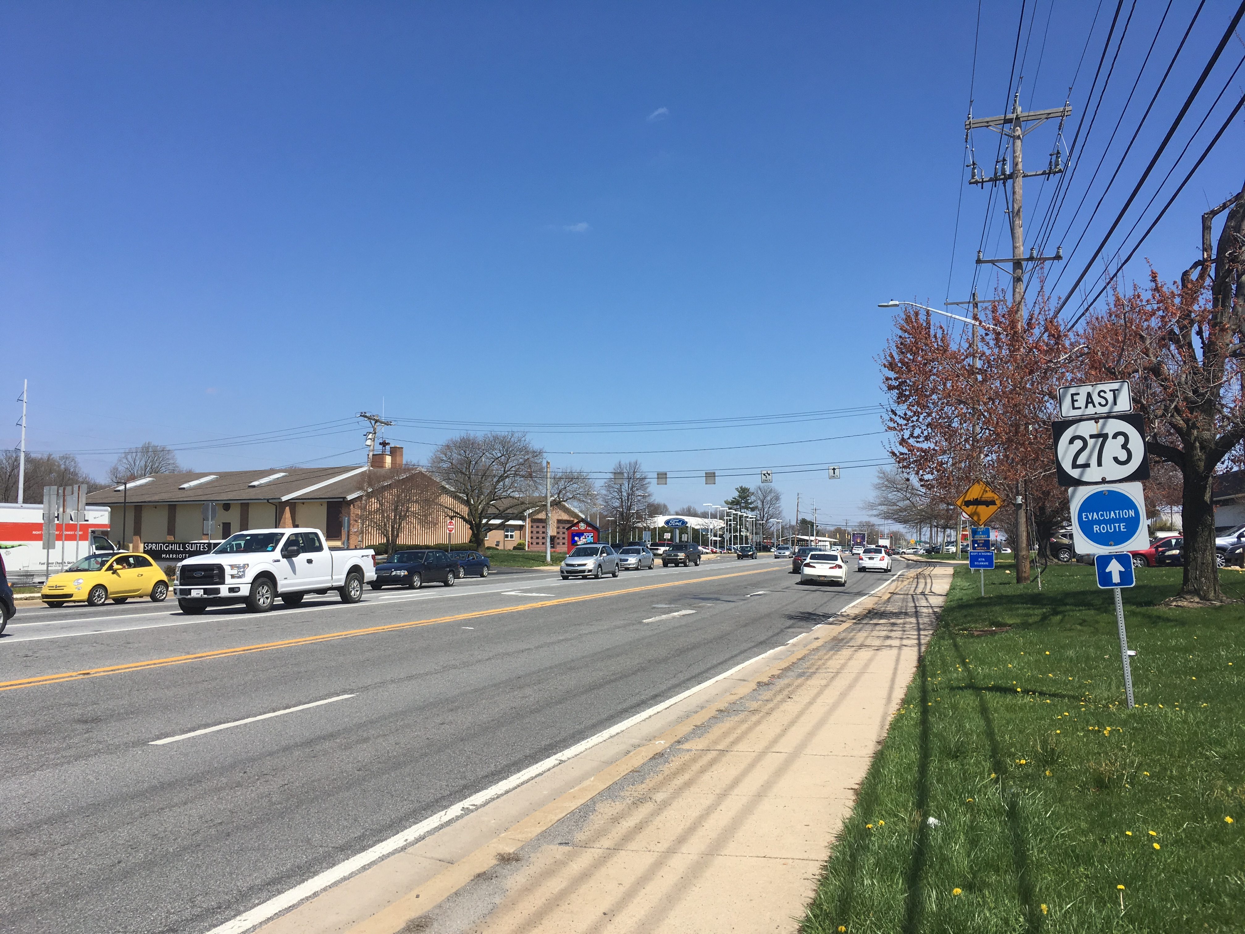 Eastbound Delaware Route 273 (Ogletown Road) past the intersection with Delaware Route 2/Delaware Route 72 (Capitol Trail/Library Avenue) in Newark, Delaware